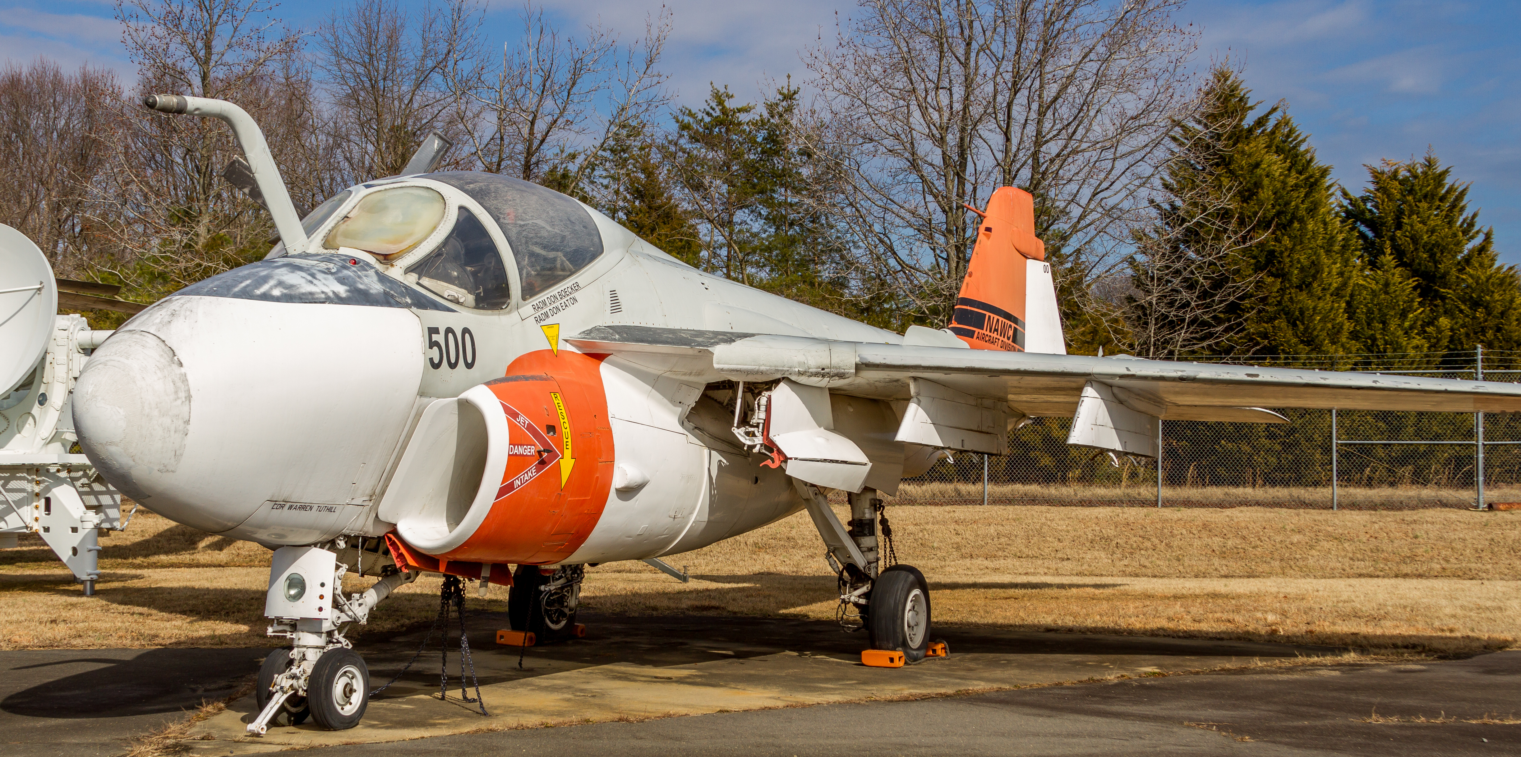 A Grumman A-6E Intruder on display at the Patuxent River Naval Air Station Museum. This aircraft, Bureau Number 156997, was original an A-6A that first flew in December 1969. It was converted to an A-6E and flew in the VX-5 operational test squadron. It was transferred to the Naval Air Test Center's Strike Air Test Directorate at Patuxent River in October 1984, and was retired on July 29, 1993. It came to the museum in April 1995. It was 4,789 flight hours, 780 catapult launches, 787 arrested landing, and 6,287 total landings.